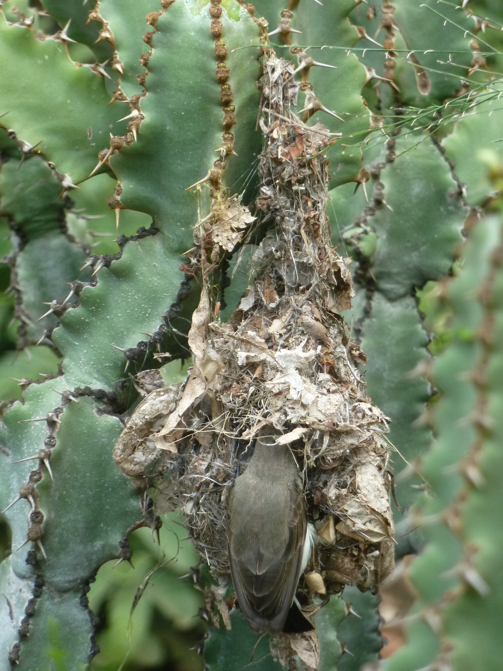 A female White-bellied sunbird visiting her nest in the Walter Sisulu Botanical Garden in Roodepoort, Gauteng